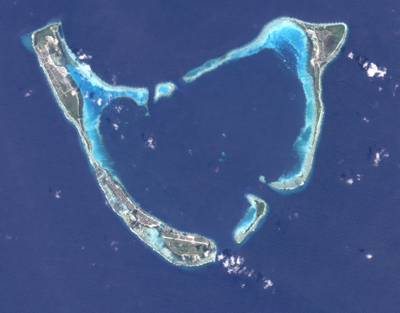 This image (Landsat 7) shows the Addu atoll, in the south of the Maledives